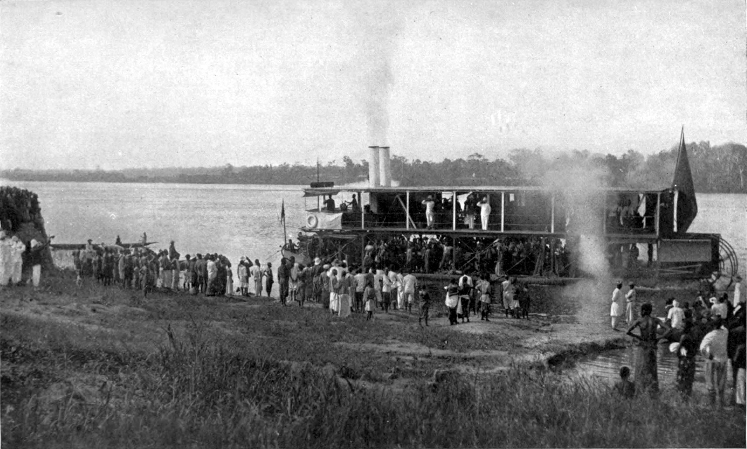 Departure of Commissioner-General Halfeyt, on Board ss. “Stanley,” Stanleyville, 1899. - p. 46